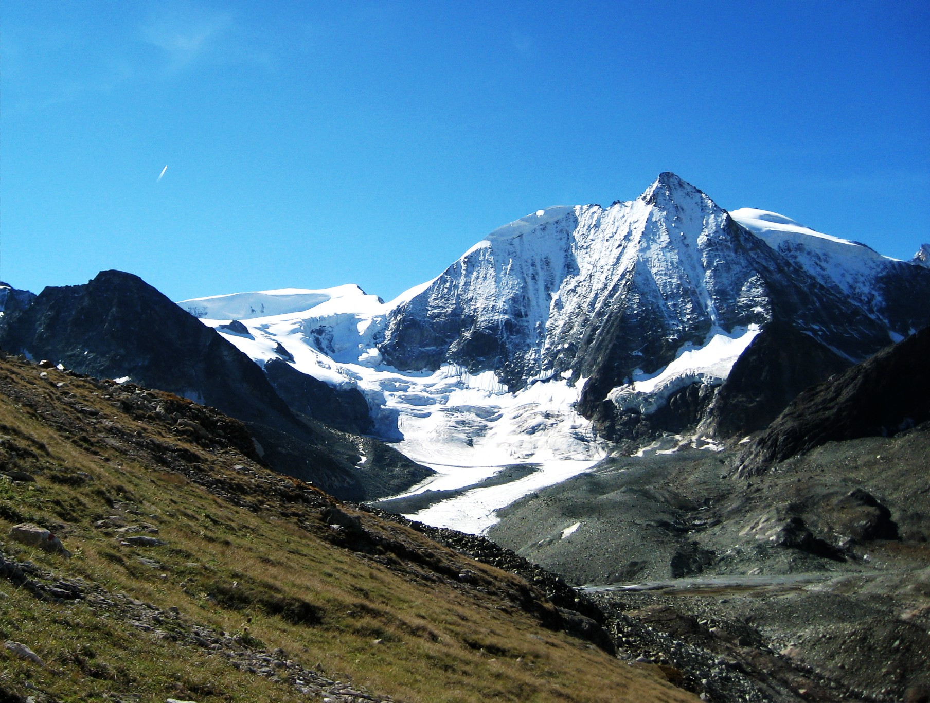 Mont Blanc de Cheilon from north